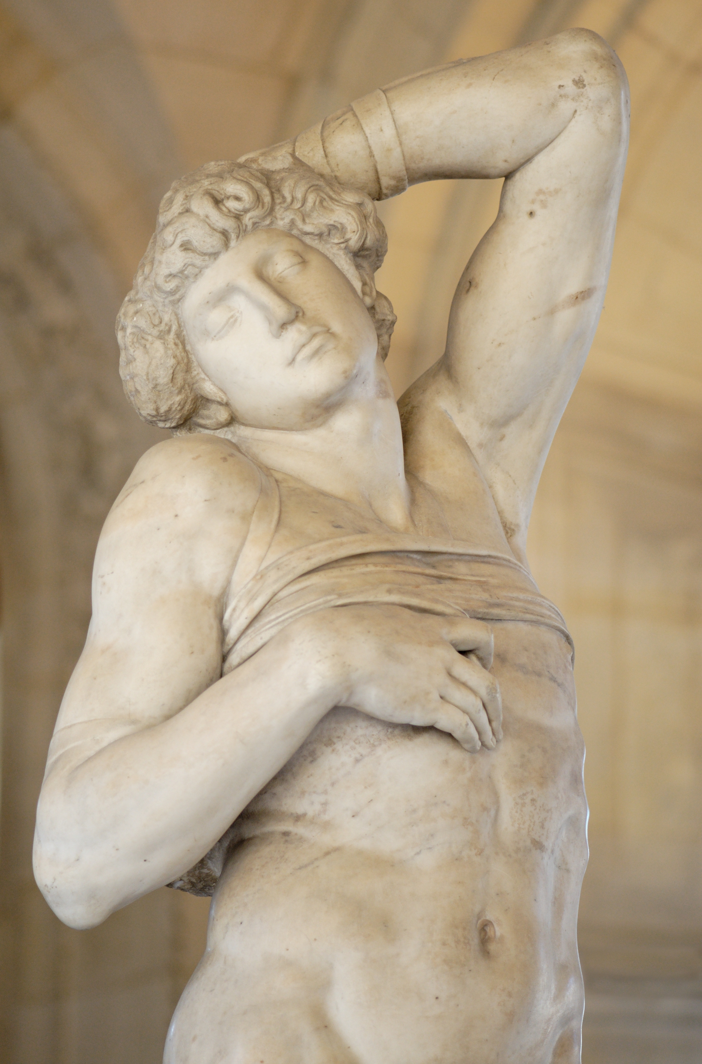 Detail from the Dying slave. Marble, 1513-1515. Commissioned in 1505 for the tomb of Pope Julius II.